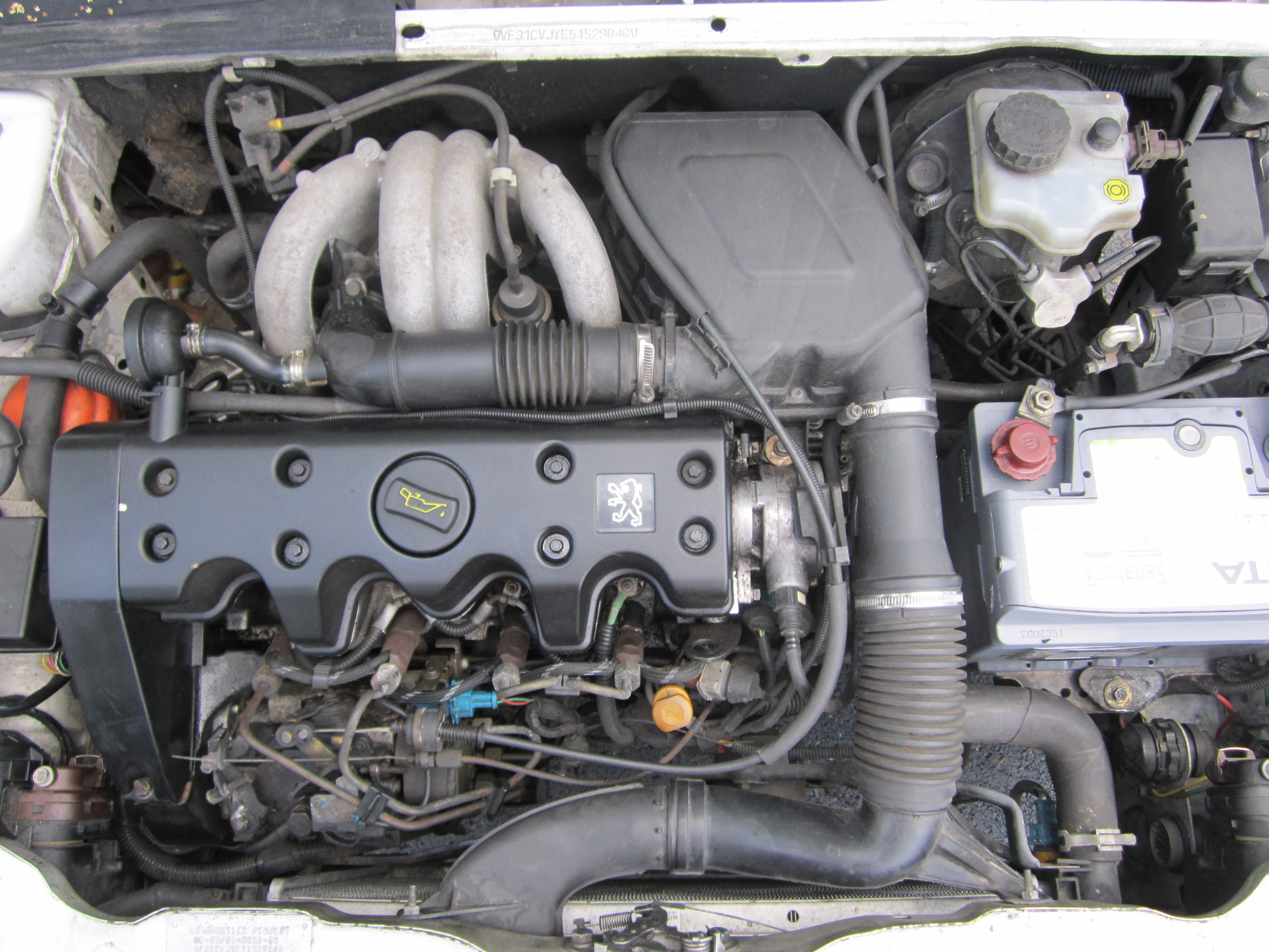 The diesel engine of a Peugeot 106 1.5 D